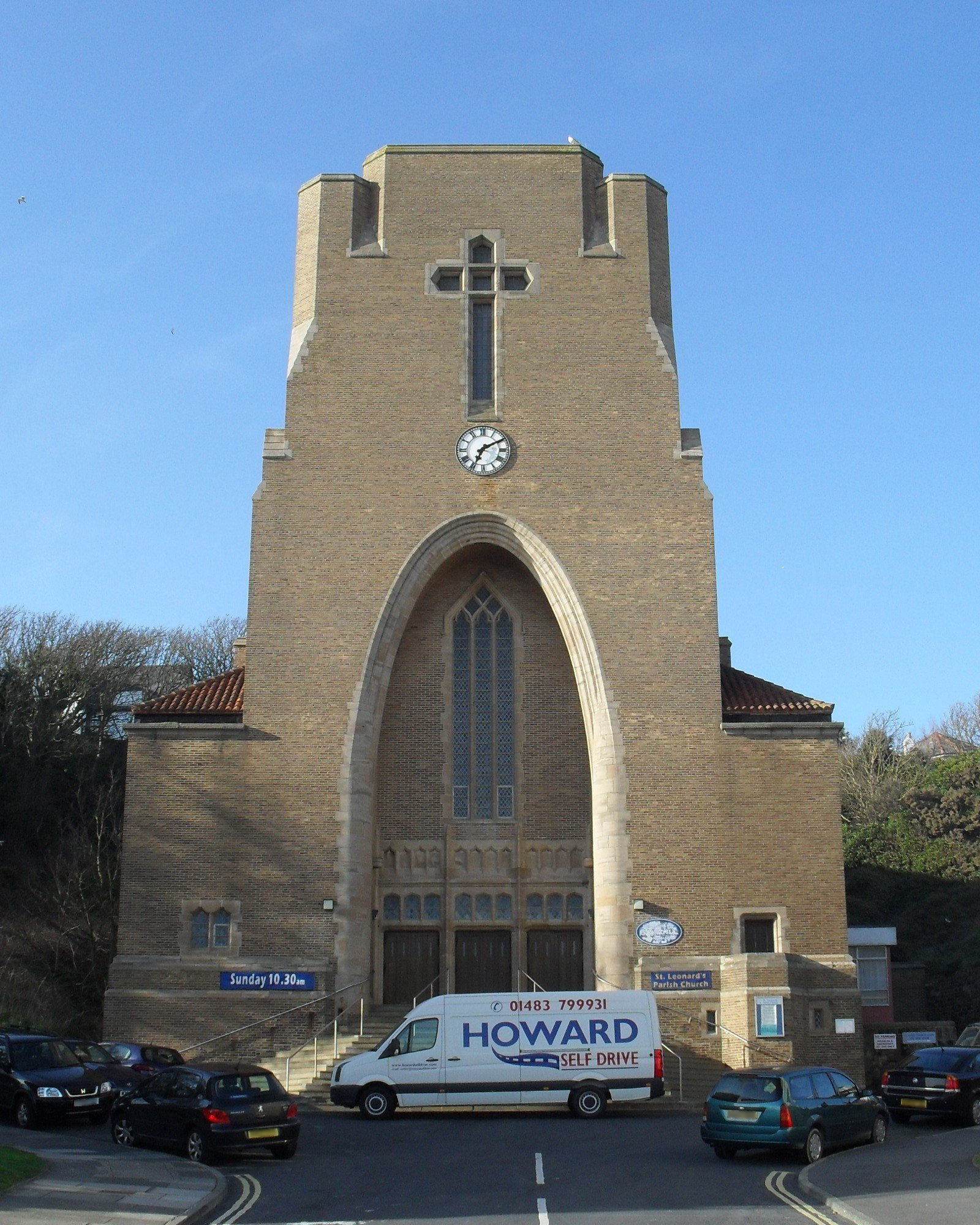 St Leonard's Church, Marina, St Leonards-on-Sea, Hastings, East Sussex, England. Built in 1832 by James Burton as part of his St Leonards-on-Sea development; rebuilt between 1953 and 1961 by Giles and Adrian Gilbert-Scott after World War II damage.Listed at Grade II by English Heritage (IoE Code 470627)